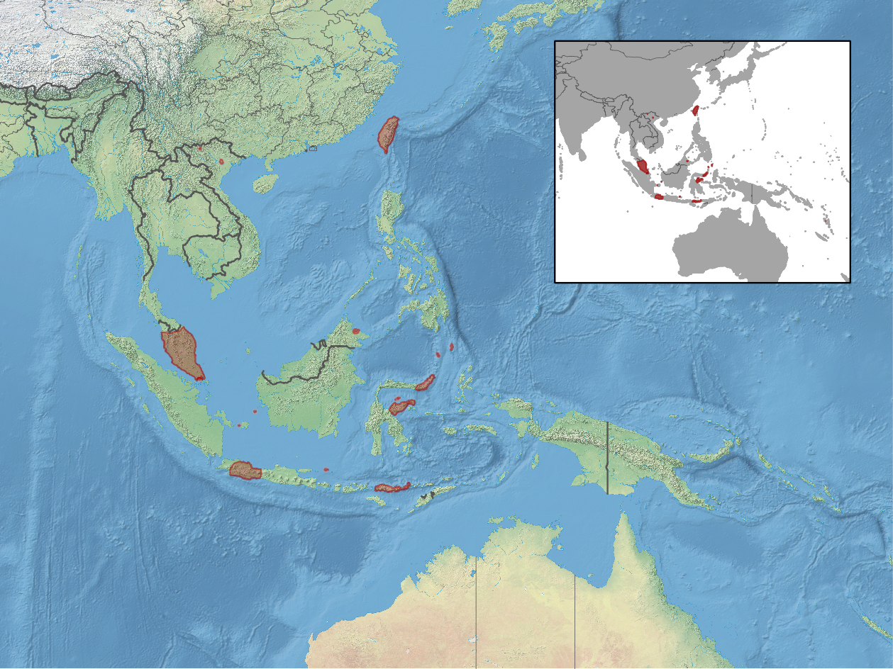 geographic distribution of Myotis adversus